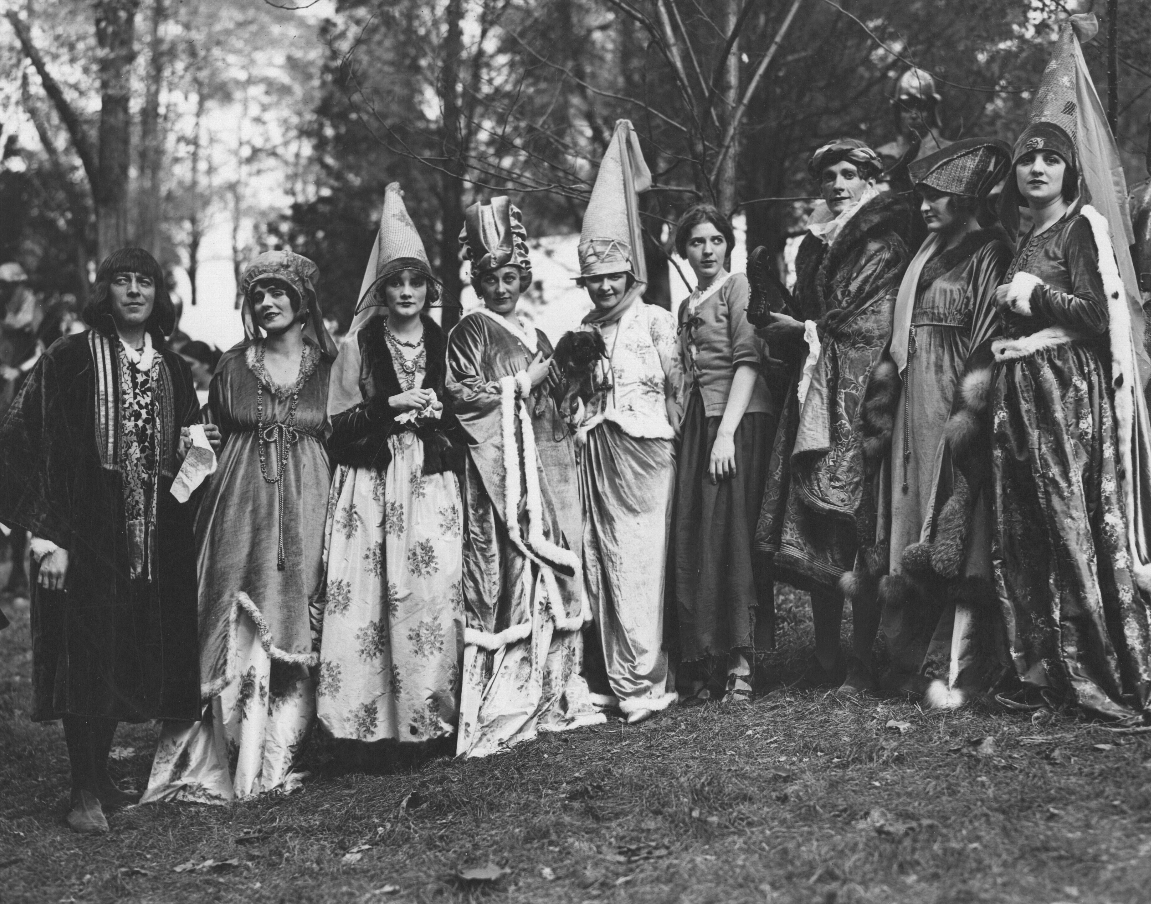 Scope and content: Date Taken: 1917 Photographer: Paul Thompson